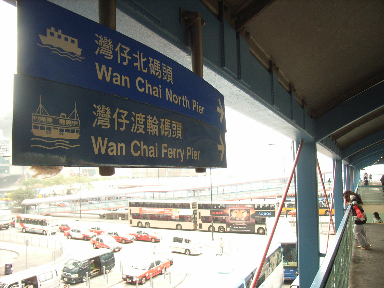 A sign showing the direction to Wan Chai Ferry Pier, Wan Chai, Hong Kong Island Photo created by User:HungBEER.